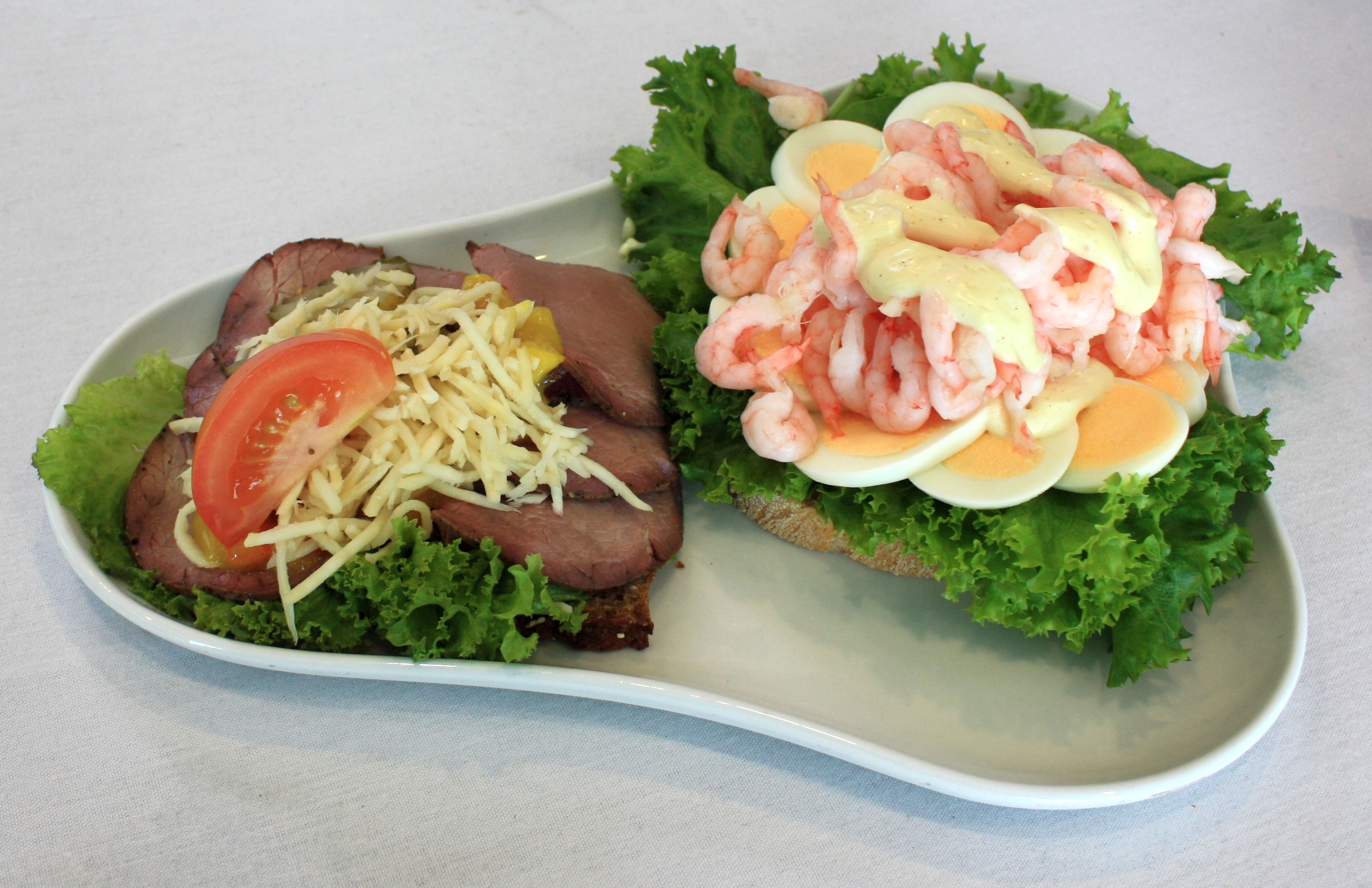 Danish open sandwiches (smørrebrød) at a cafe at Kastrup Airport in Denmark